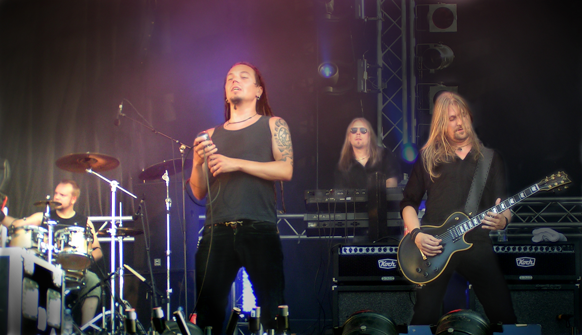 Amorphis live at Ruisrock 2006. Photo: Tina Solda